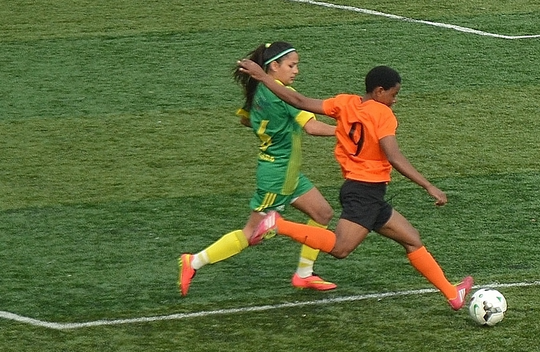 Büşra Taşkın playing for Kireçburnu Spor in the 2015-16 season